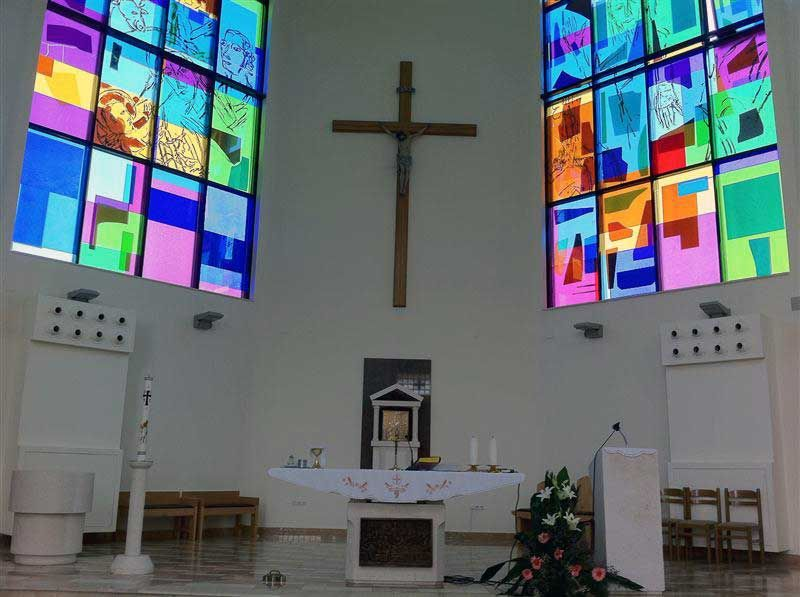 St. Elijah the prophet church in Kiseljak